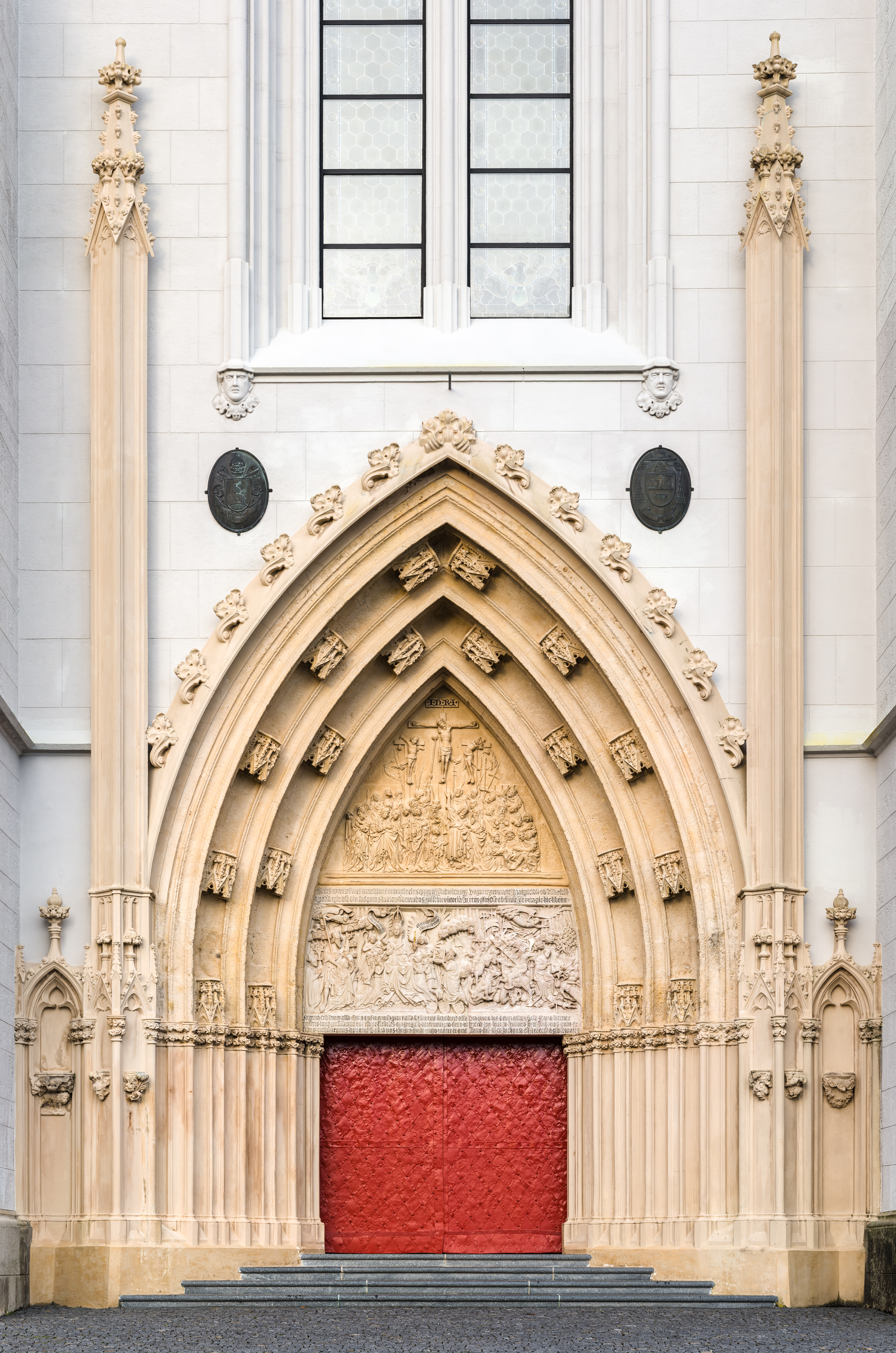 Main portal of Mariazell Basilica, Styria, Austria